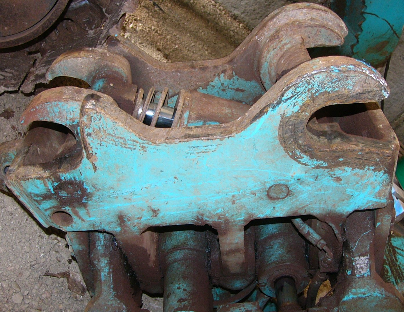 Excavator quickhitch in the extended position.